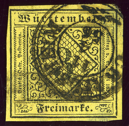 Stamp of the Kingdom of Wurtemberg, first issue 1851, 3 kreuzer, 3-rings cancelled at CRAILSHEIM in 1856.